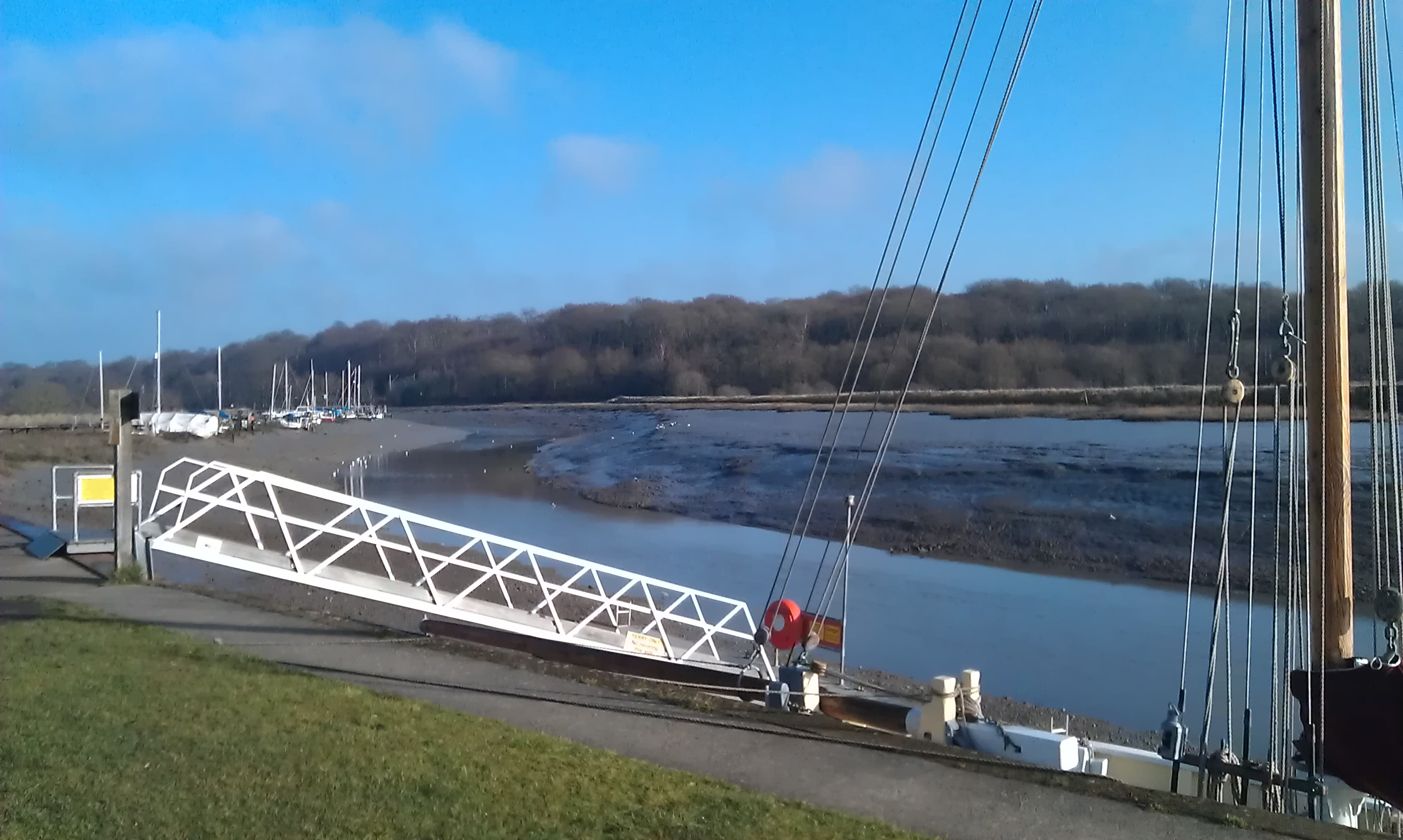 The River Colne from Rowhedge harbour, looking over to Wivenhoe